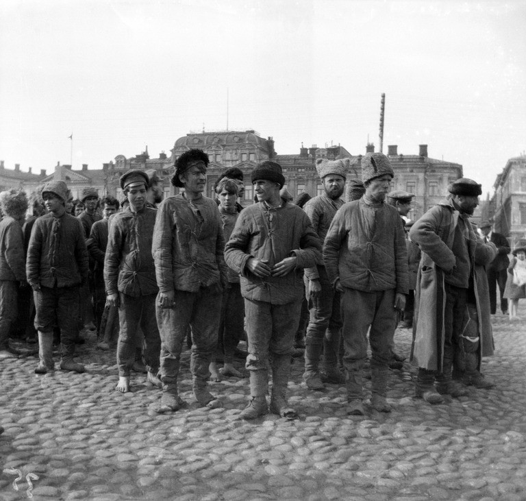 Russian soldiers captured after the 1918 Finnish Civil War Battle of Rautu at the Helsinki Market Sqare waiting for a transport to the Sveaborg Camp.